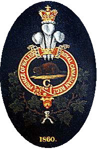 Hat Badge